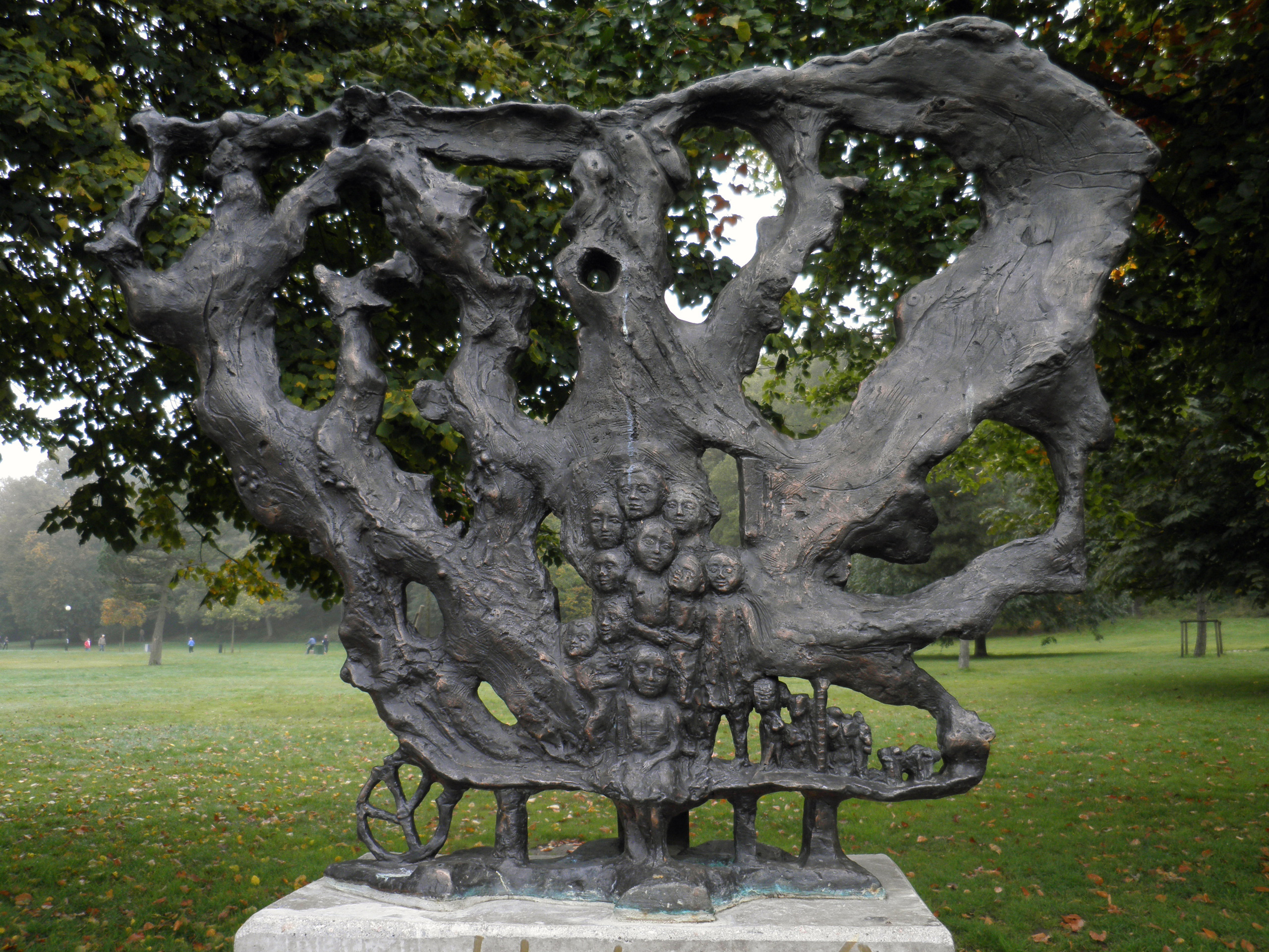 "Badresorna till Askim" is a sculpture by Jerd Mellander, celebrating the free transport for school children to the public beach in Askim arranged by Dr Henrik Allard from 1923 into the 1950s